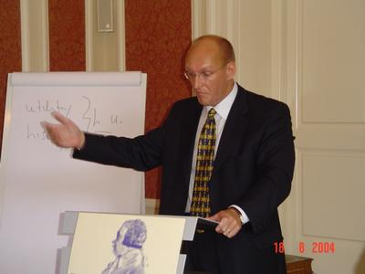 Andreas Kinneging.